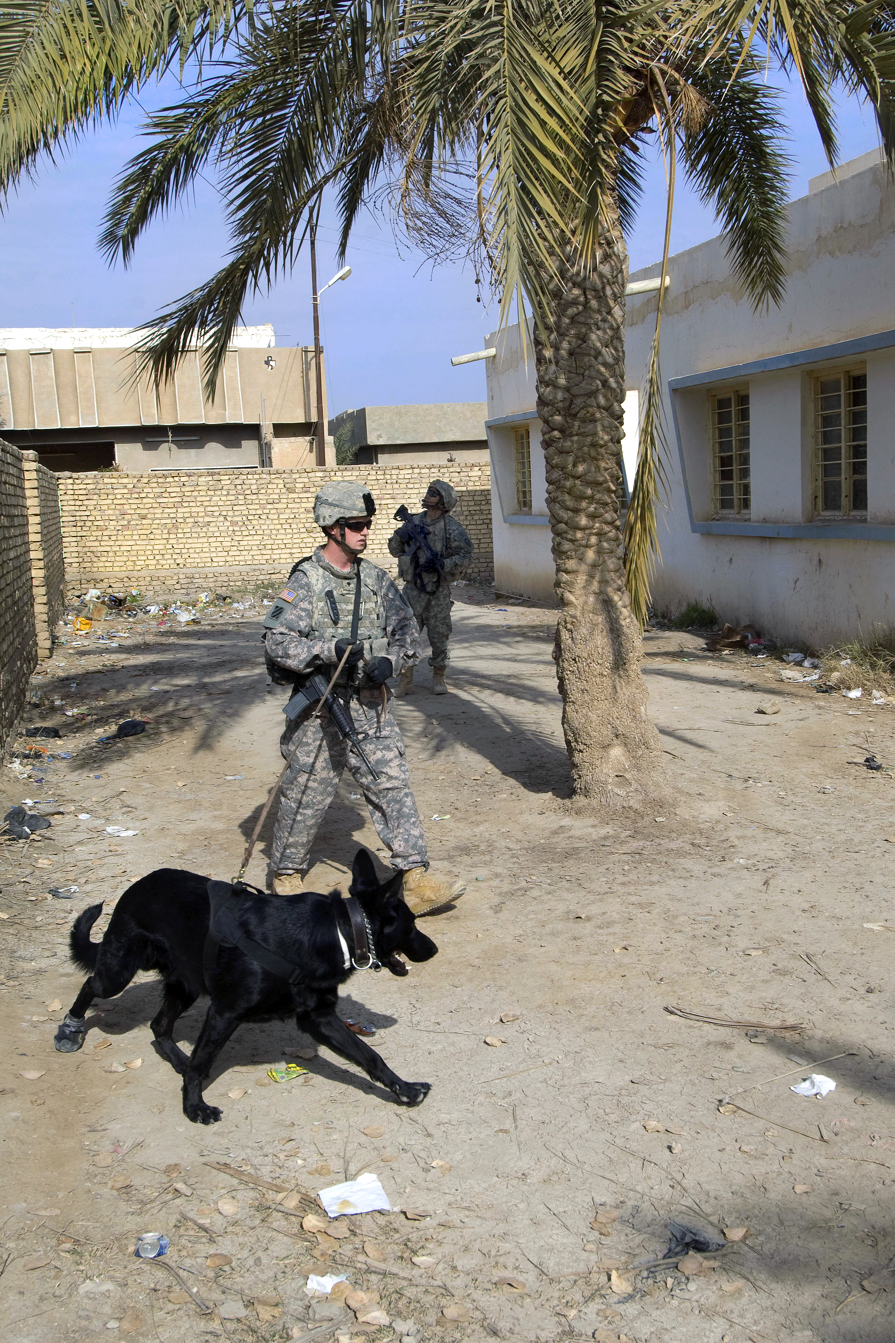 U.S. Army Spc. Nicholas Morton and his military working dog, Demon, search for explosives to secure polling sites for the upcoming Diyala provincial elections in Baqubah, Iraq, Jan. 27, 2009. Mornton is assigned to the 25th Infantry Division's 2nd Battalion, 8th Field Artillery Regiment, 1st Stryker Brigade Combat Team.